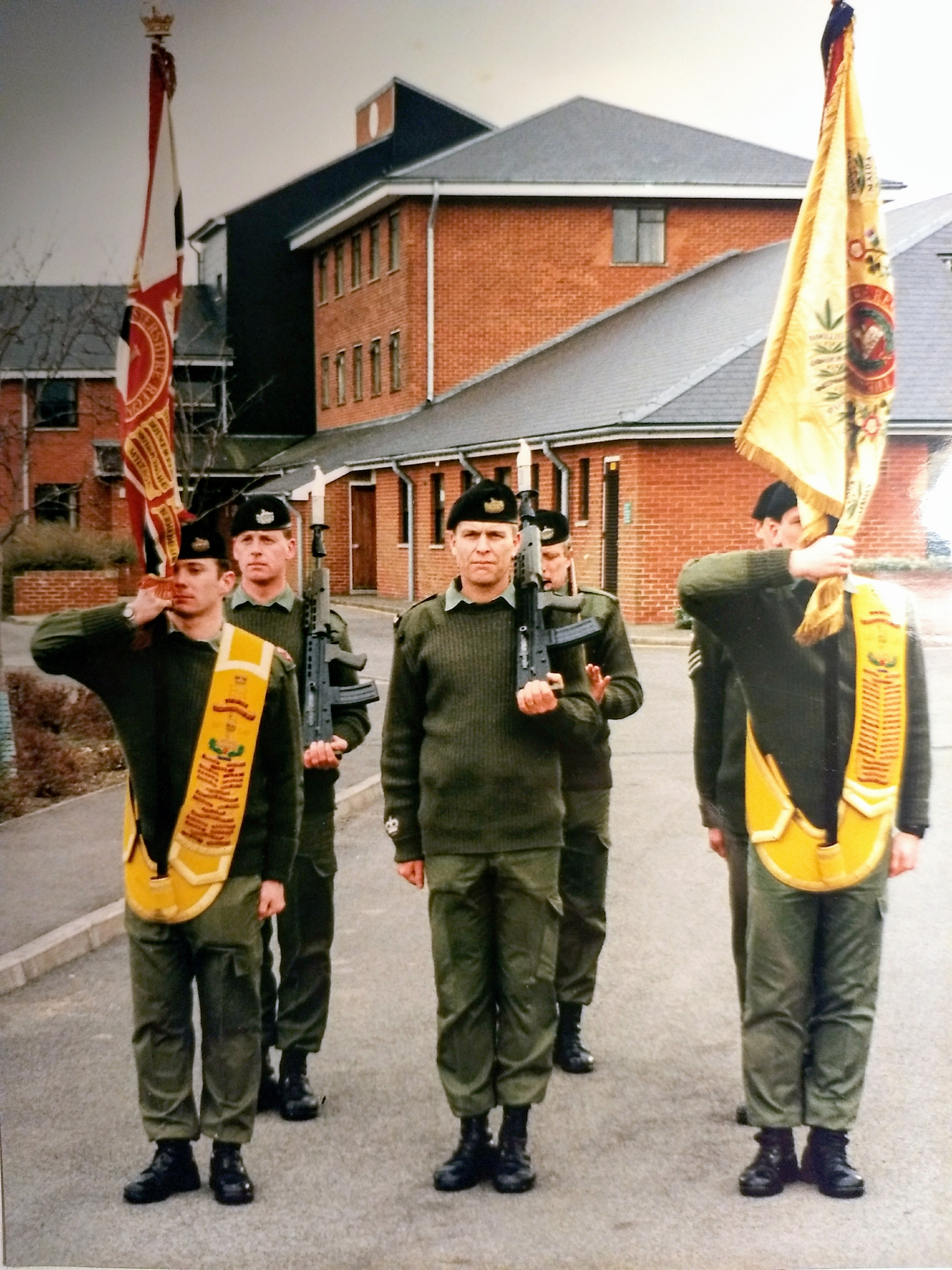 1st Bn the Gloucestershire Regiment parading the colours at Catterick Garrison on Backbadge day 1993